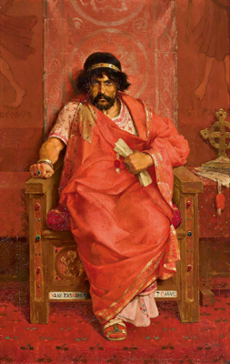 Pepin the Short after the Murder of Duke Waifre Inscription about King Herod - in modern auctions. About king Pipin - in 19th-century book. Please note the crucifixion and Latin inscription at the throne (vani tasvani tat [...] et omnii) - so this should be Medieval Frankish king, not Ancient Jewish.